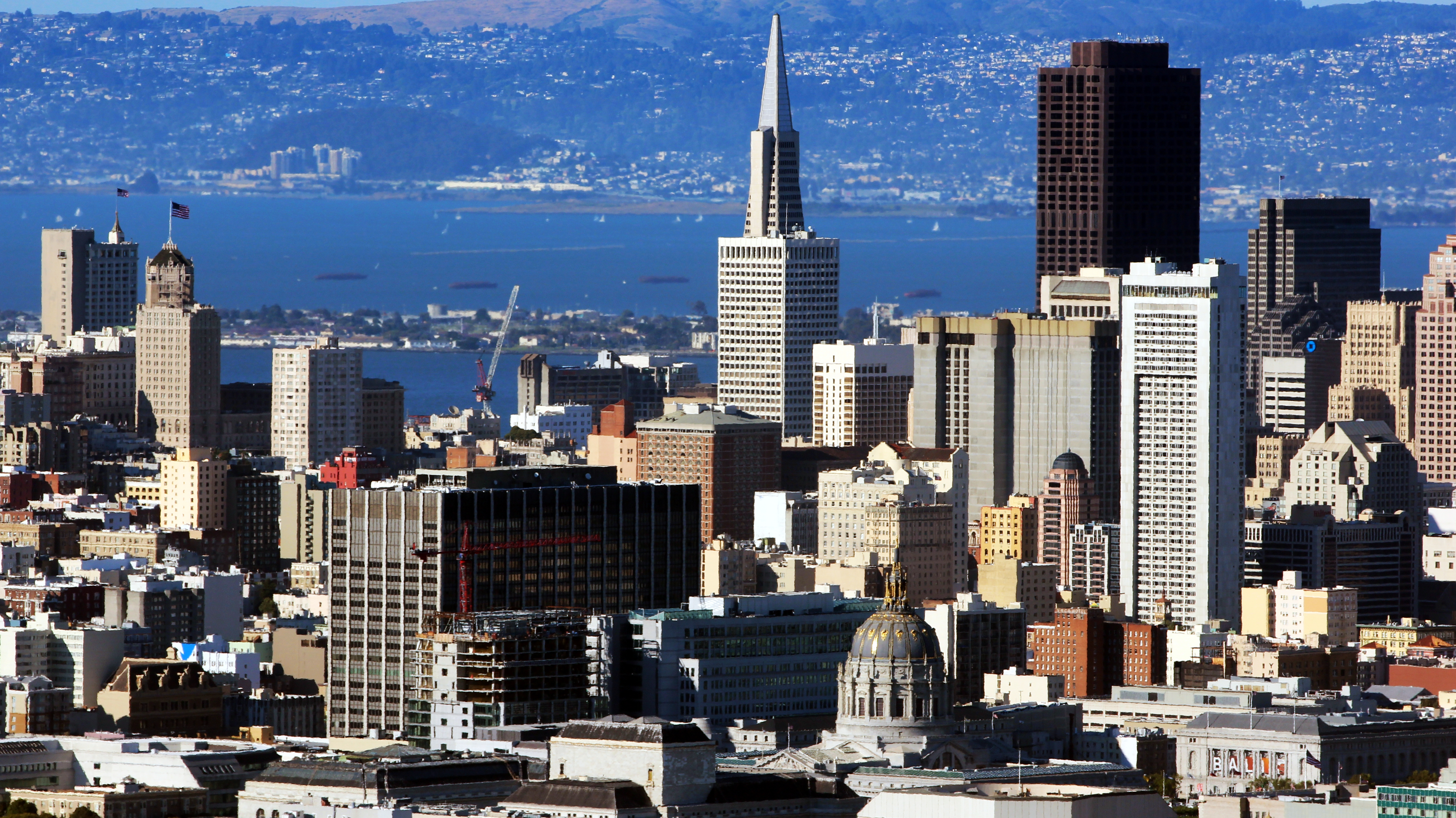 View of San Francisco, California from Twin Peaks